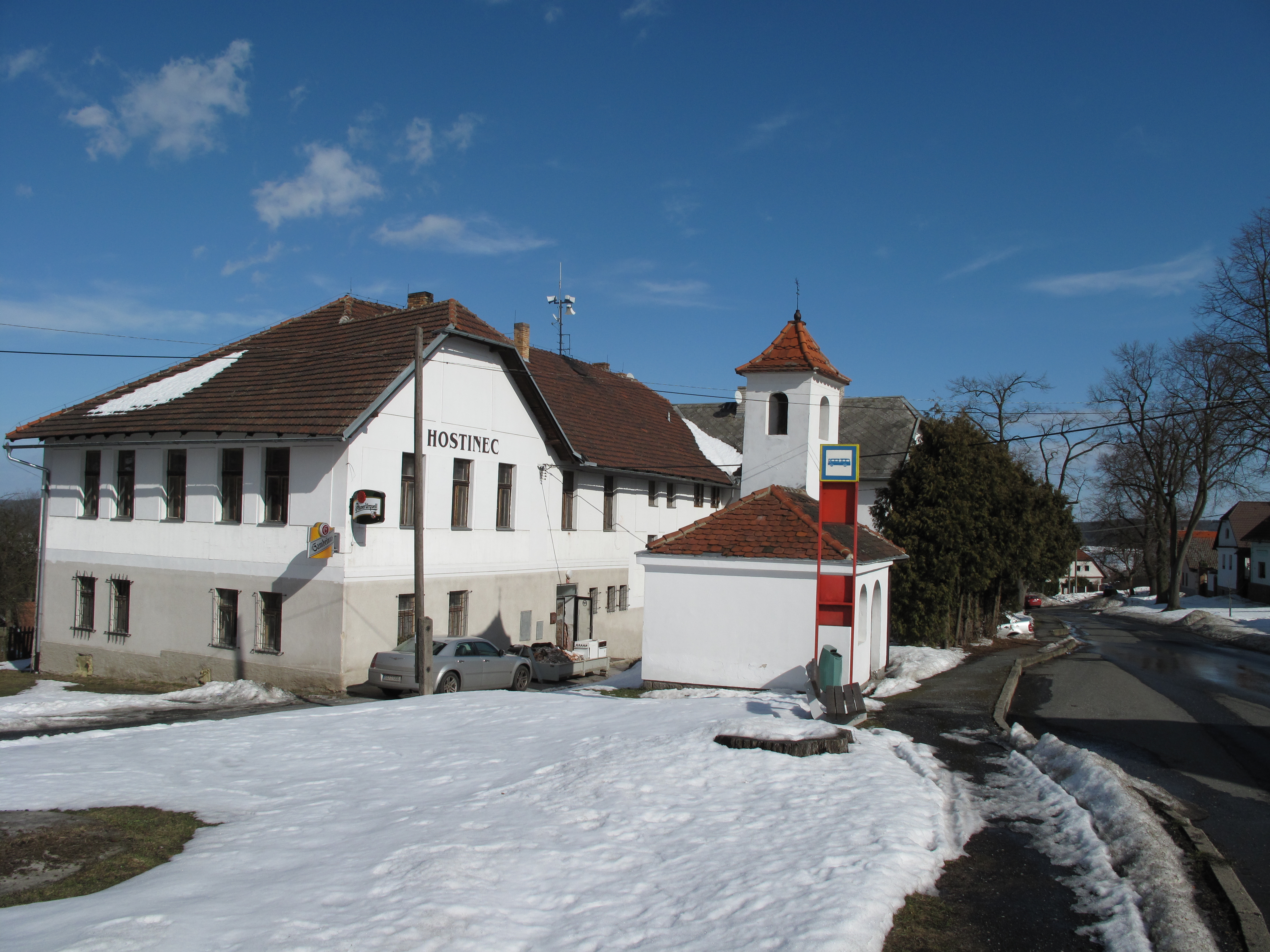 Pub, small chapell and bus stop in Hradové Střimelice village (Stříbrná Skalice municipality), Prague-East District, Czech Republic. This photograph was taken within the scope of the 'Czech Municipalities Photographs' grant.